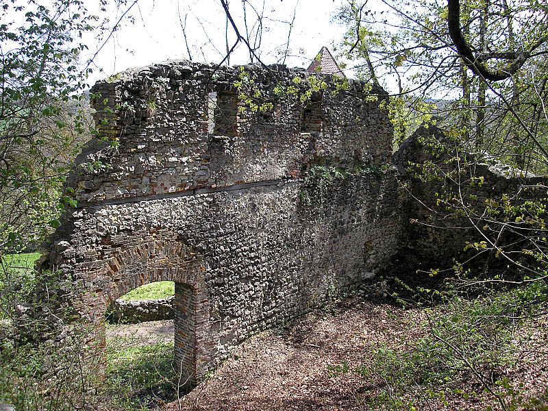 Burg Kaltenburg (Schwäbische Alb), southwest curtain wall of the second castle.